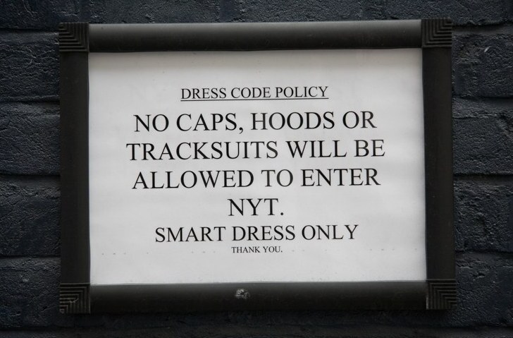 Dress code as seen at a London Club in the Soho area.